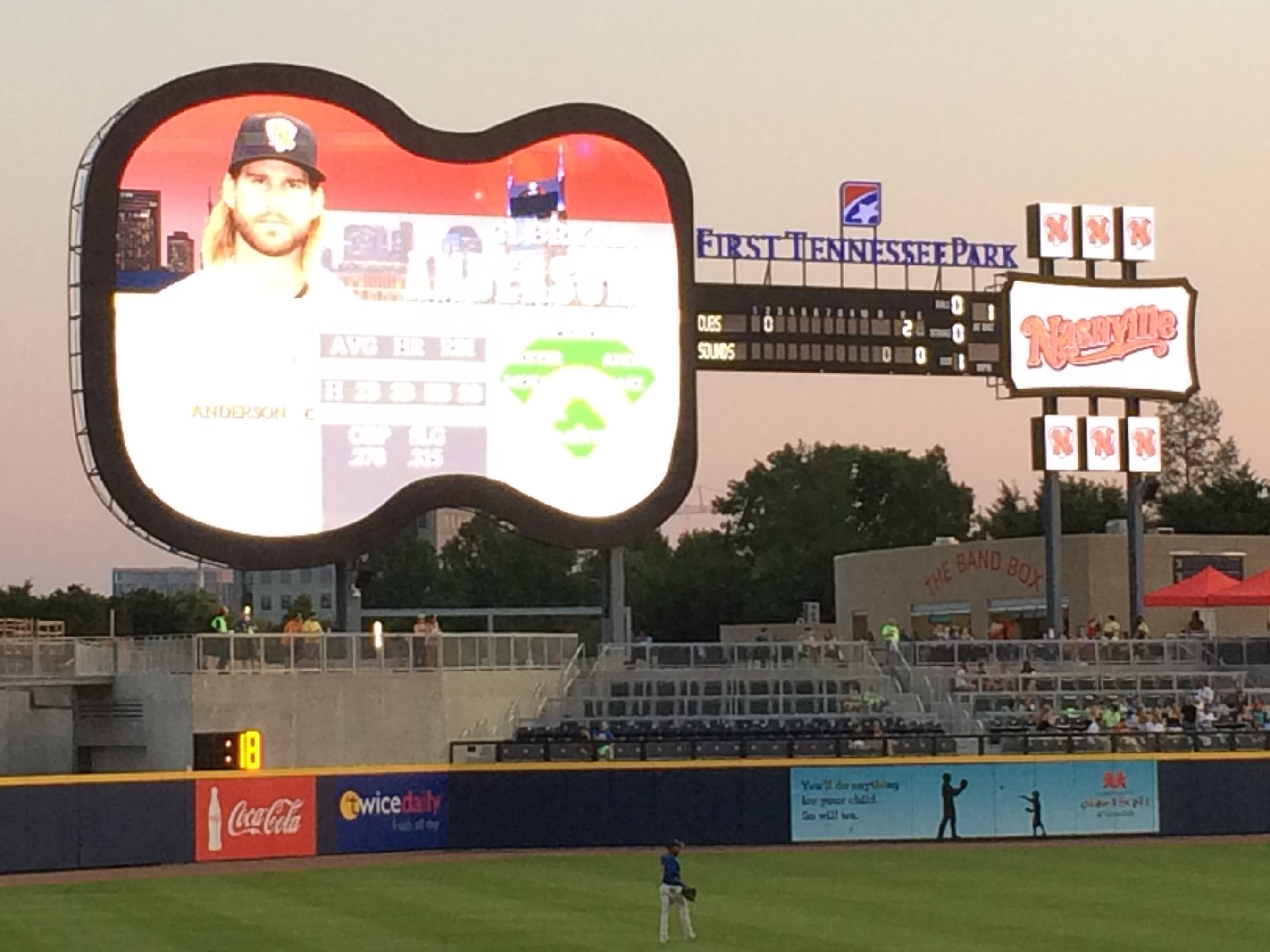 The guitar scoreboard at First Tennessee Park during a game on May 5, 2015